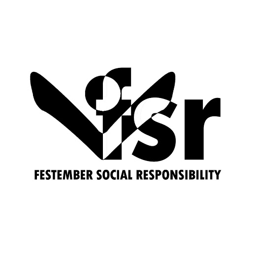 Logo for FSR